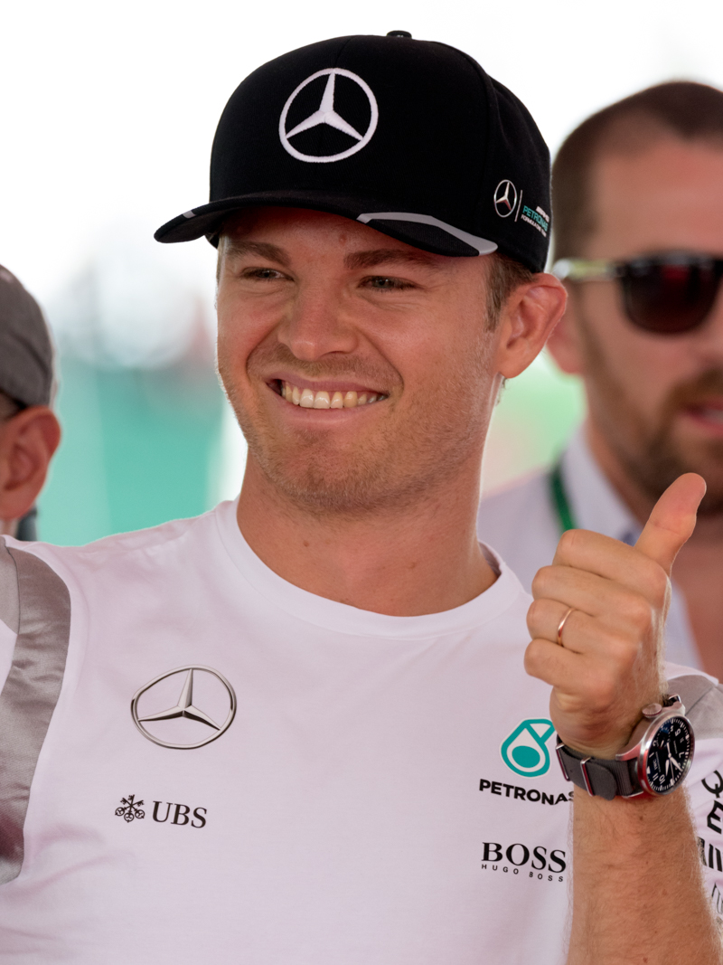 Formula One 2016 Rd.16 Malaysian GP: Nico Rosberg (Mercedes)